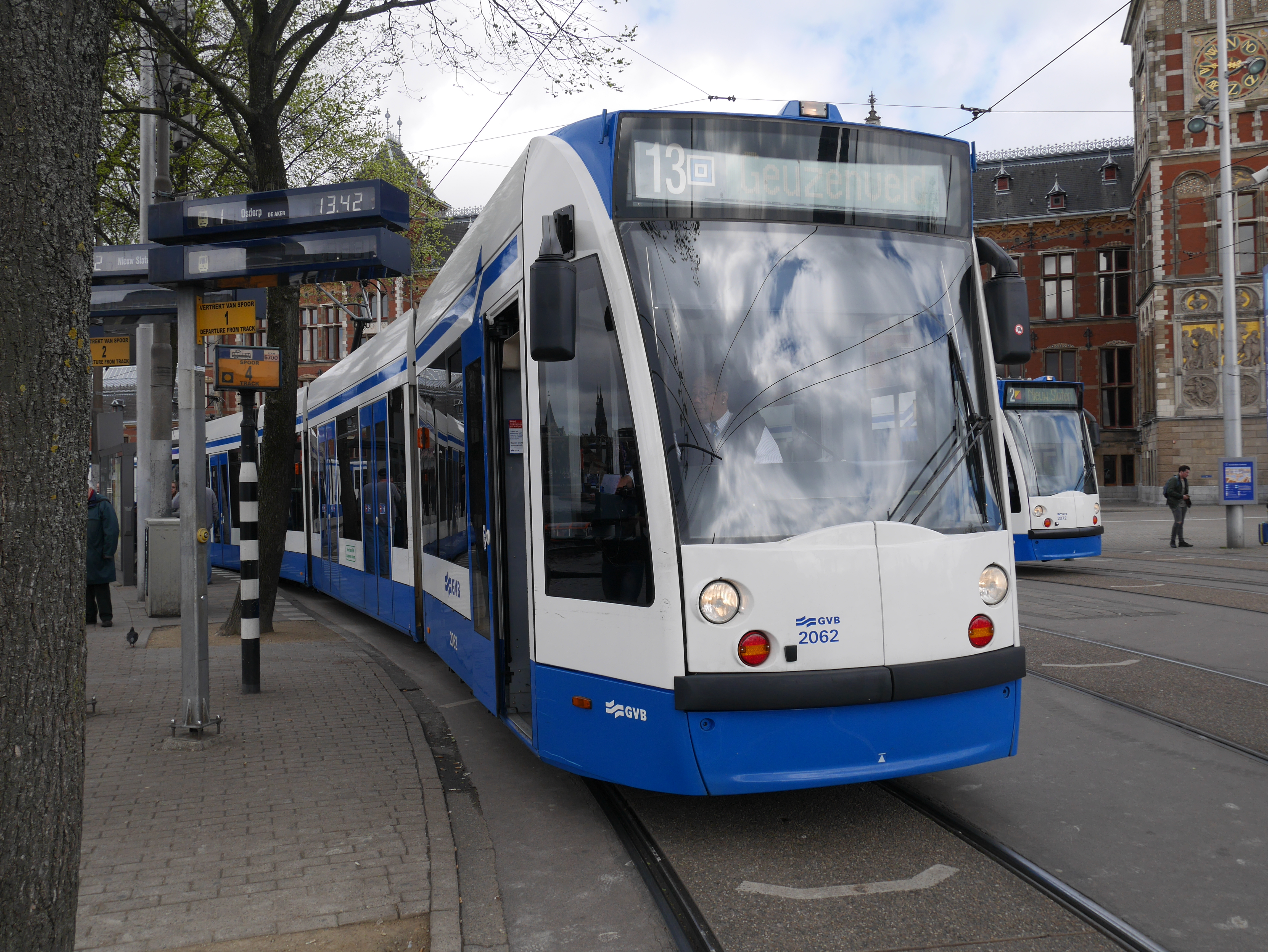 Comino tram no. 2062 of the GVB stops as line 13 to Geuzenveld at Amsterdam central station.